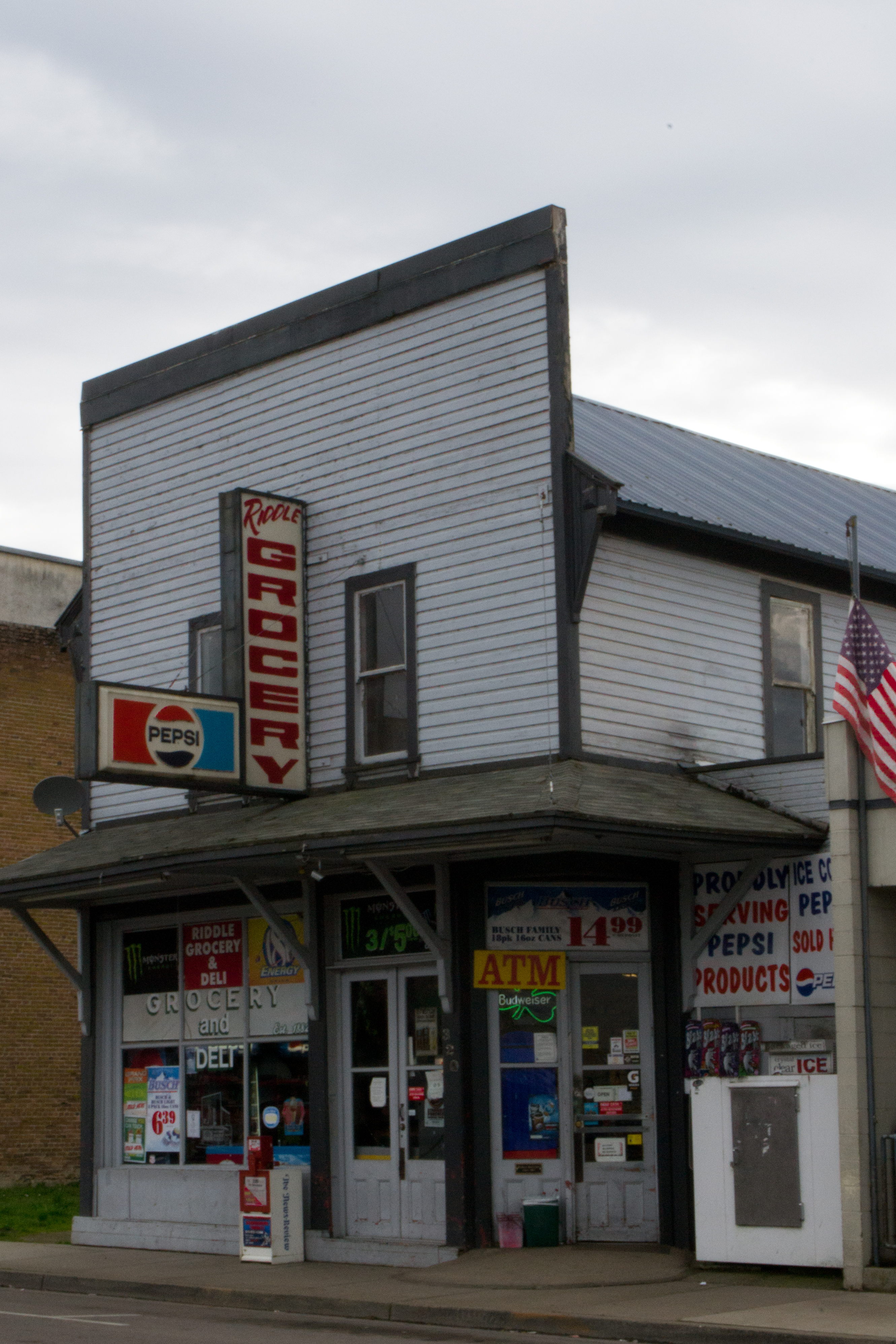 Riddle, Oregon